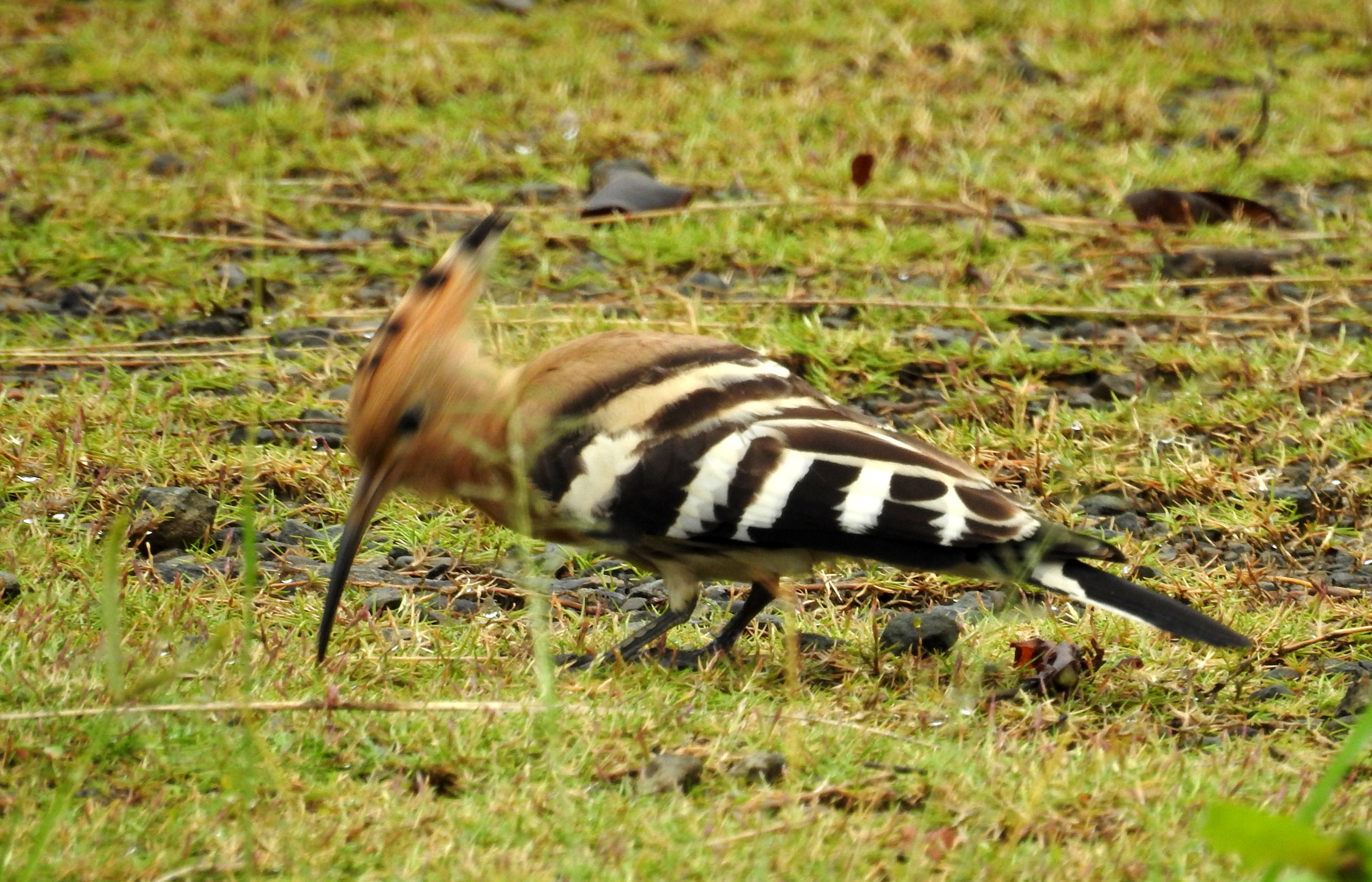 Eurasian Hoopoe foraging on a lawn in Mizoram University, Aizawl, Mizoram